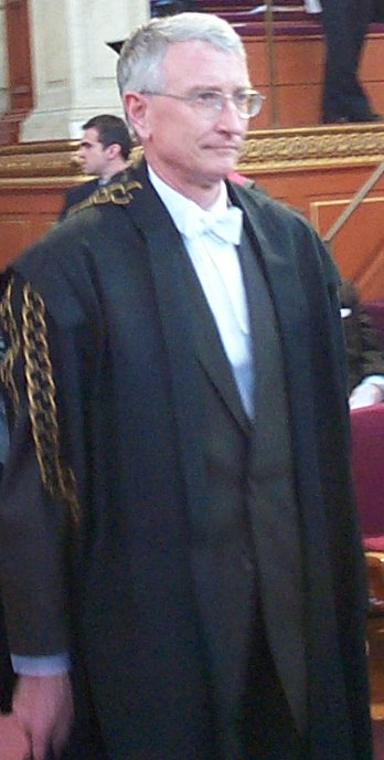 John Hood. Copyright © 2005-03-17 Kaihsu Tai.